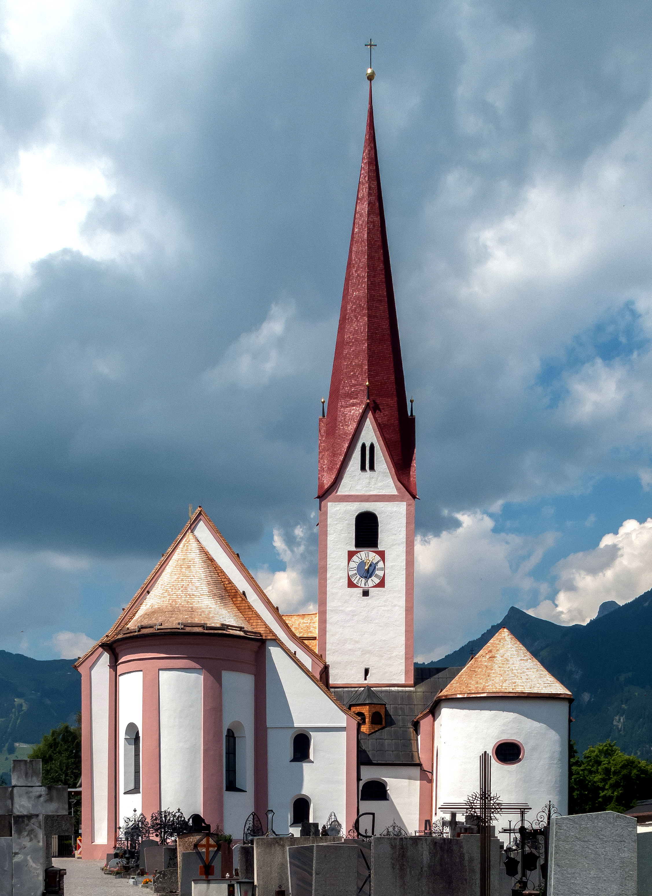 Breitenwang, church: Dekanatskirche heilige Petrus und Paulus